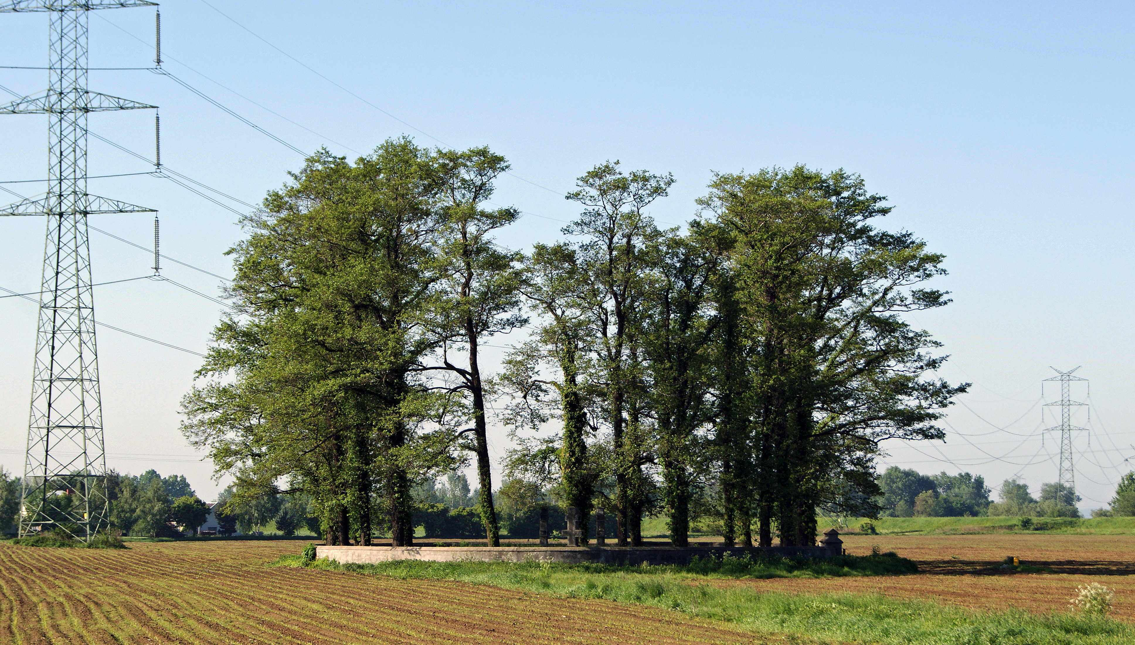 WW I, Military cemetery No. 257 Biskupice Radłowskie, Municipality Radłów, Tarnów County, Lesser Poland Voivodeship, Poland